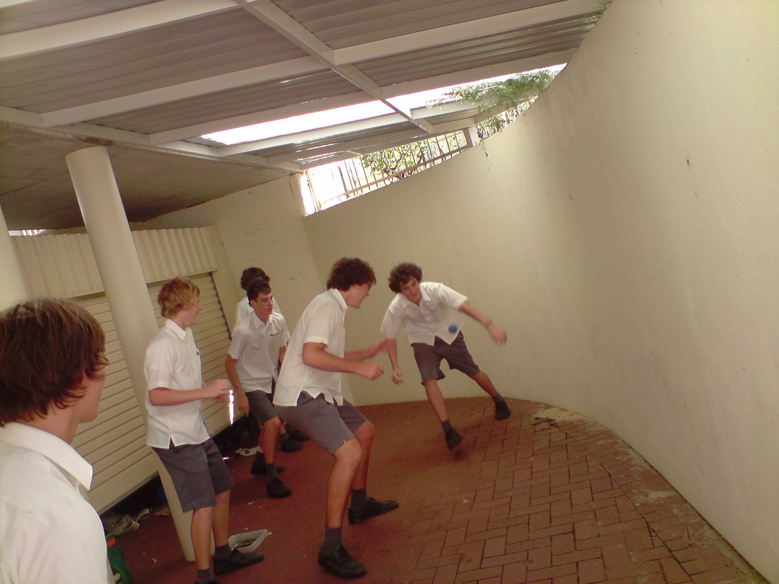 playing wallball at school